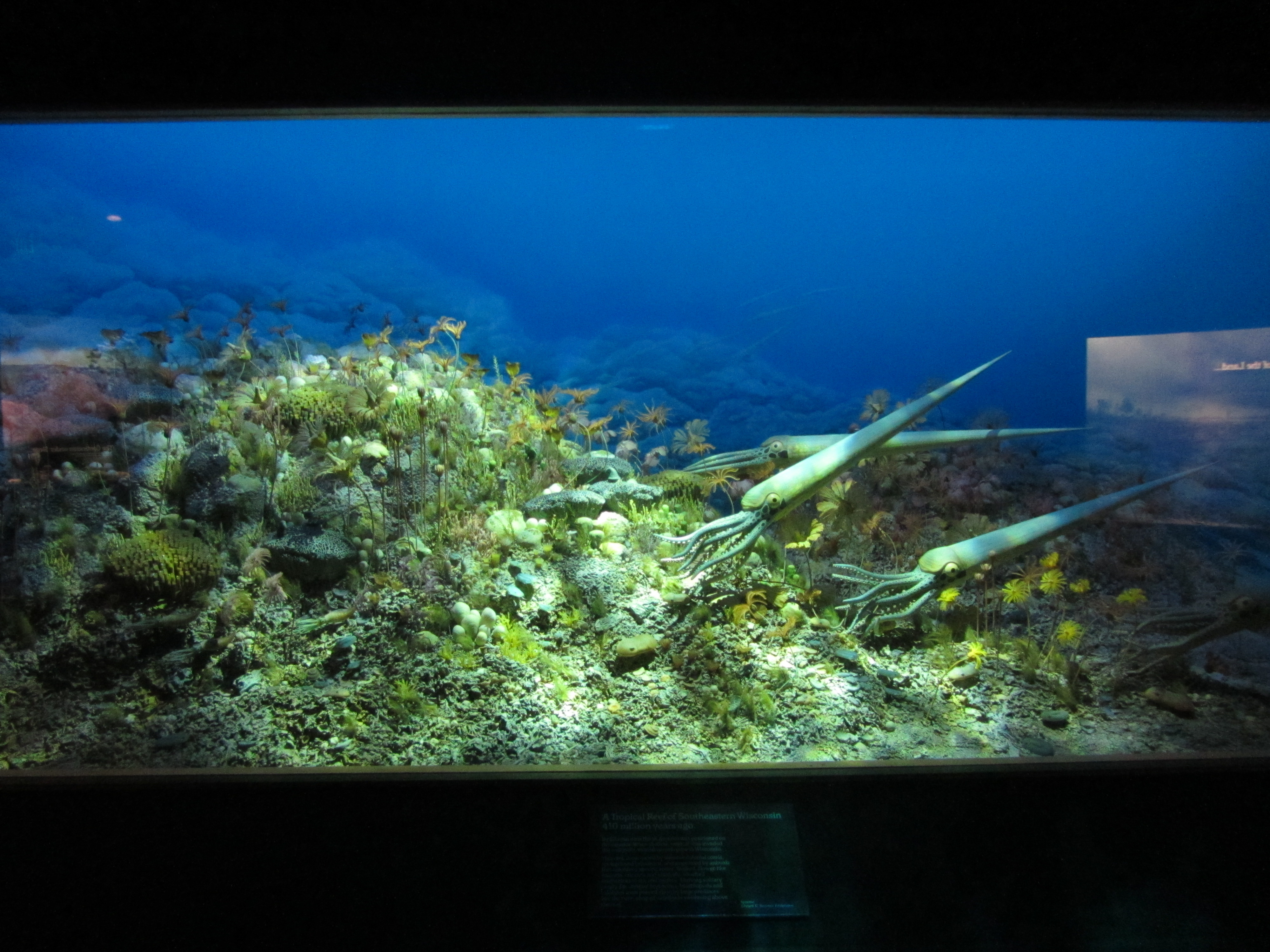 A diorama in the Third Planet exhibit depicting a Silurian-period reef, which would have covered Wisconsin 400 million years ago.